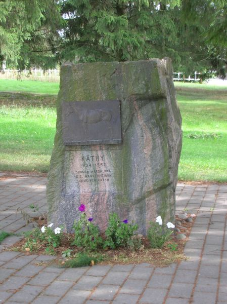 Käthy's (C.G.E. Mannerheim's horse) gravestone